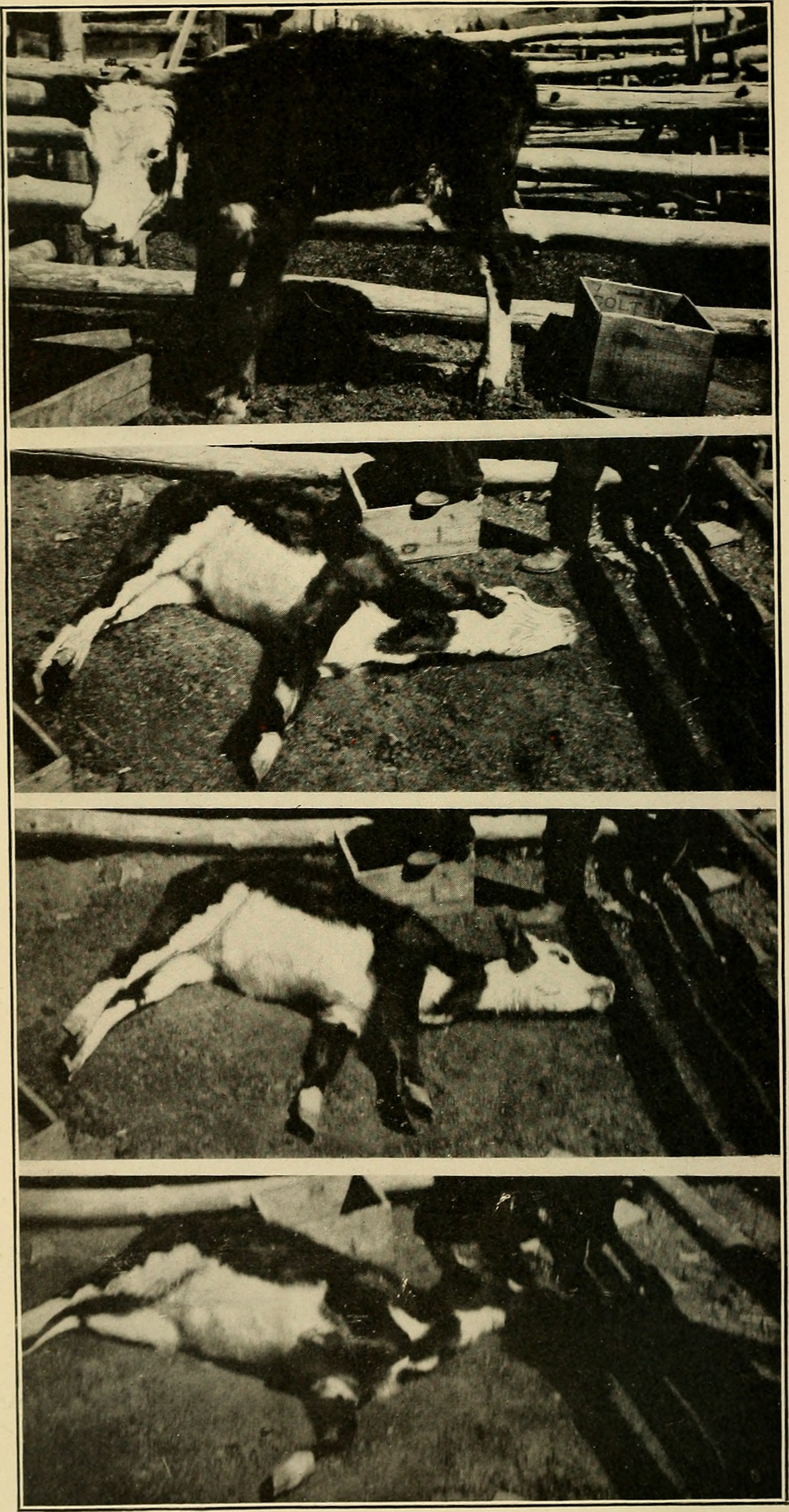 Experimental poisoning with Cicuta maculata syn. C. occidentalis Title: Bulletin of the U.S. Department of Agriculture Year: 1913-1923. (1910s) Authors: United States. Dept. of Agriculture Subjects: Agriculture; Agriculture Publisher: (Washington, D. C. ?) : The Dept. : Supt. of Docs. , G. P. O. Text Appearing Before Image: Bui. 69, U. S. Dept. of Agriculture. Plate IV. Text Appearing After Image: Case No. 119 'Calfi at 10.27, 10.29, 10.37, and 10.40 A. M.